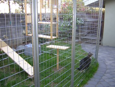 I took this picture with the permission of the owner of the subject material.